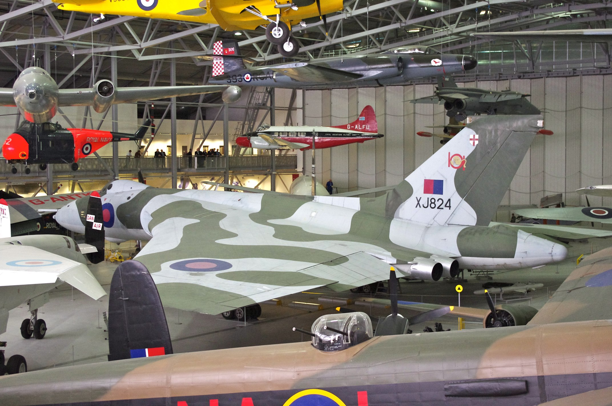 Imperial War Museum, Duxford